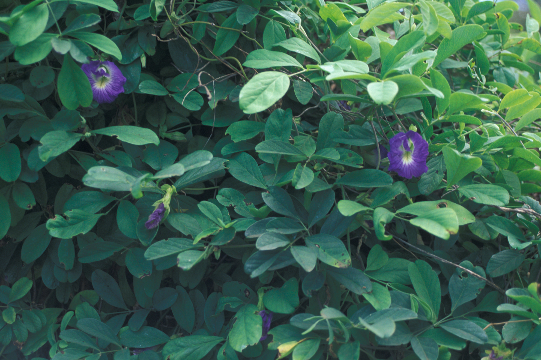 Clitoria ternatea (flowers). Location: Maui, Enchanting Floral Gardens of Kula, Maui